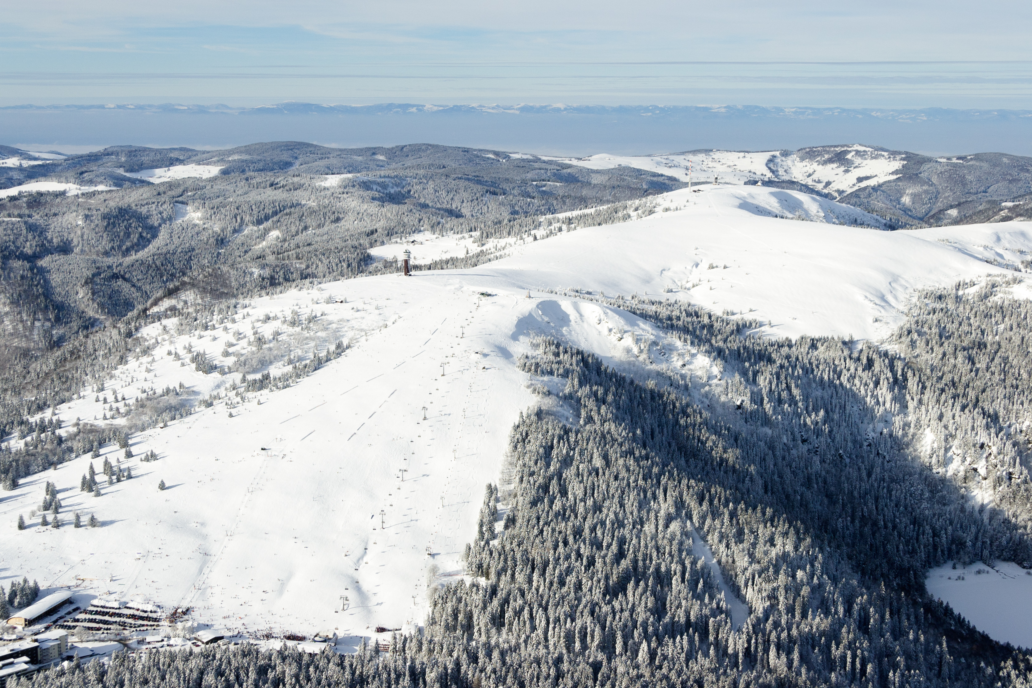 Aerial view Seebuck and Feldberg summit with a view to Schauinsland and Vosges in the background.